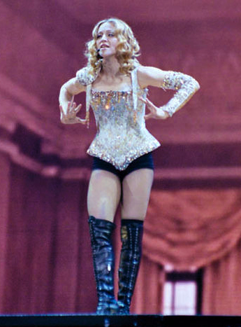 madonna